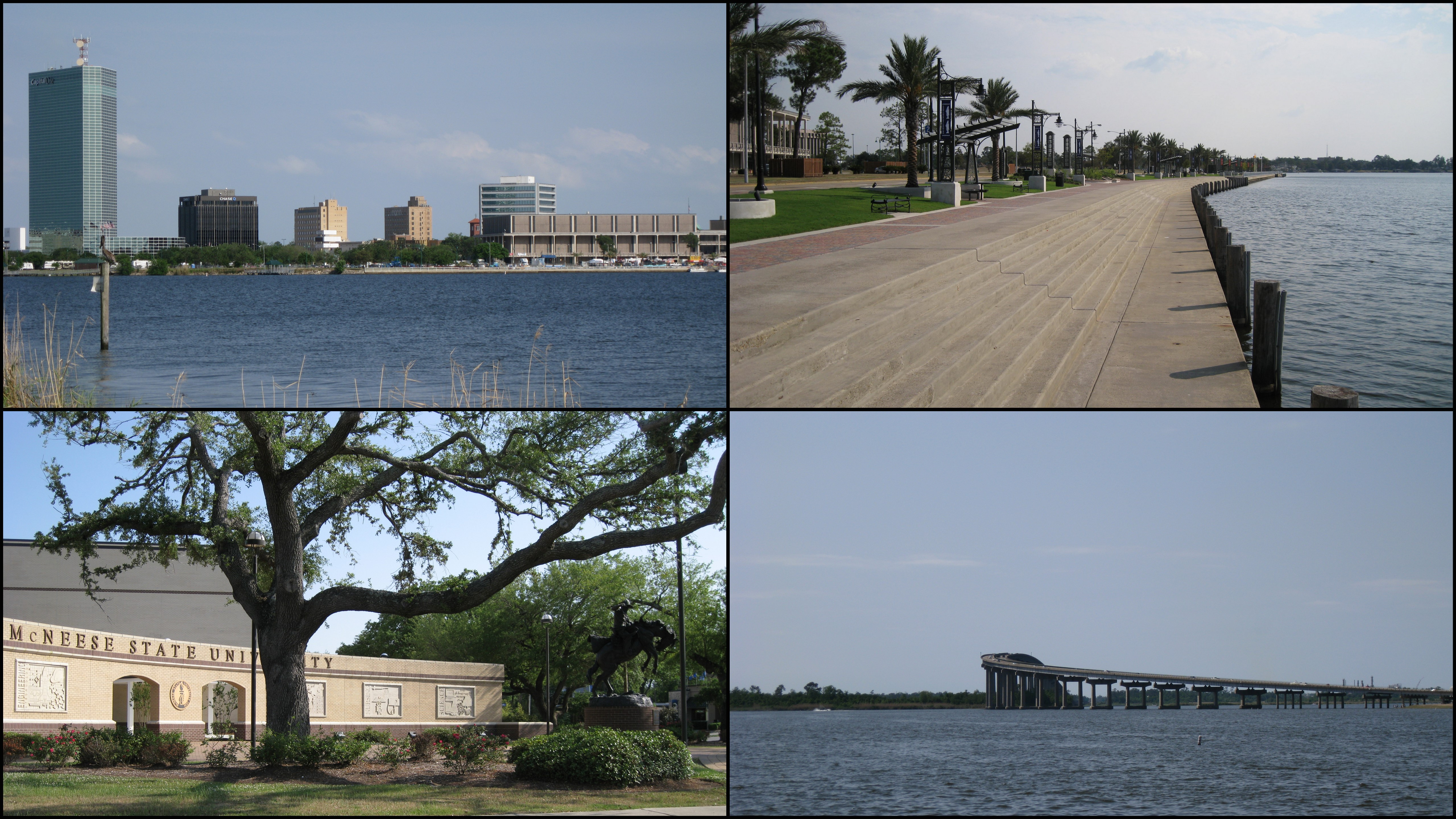 Clockwise, from left: Downtown Lake Charles skyline; Lakefront Promenade; I-210 Bridge over the Calcasieu River; McNeese State University entrance plaza.